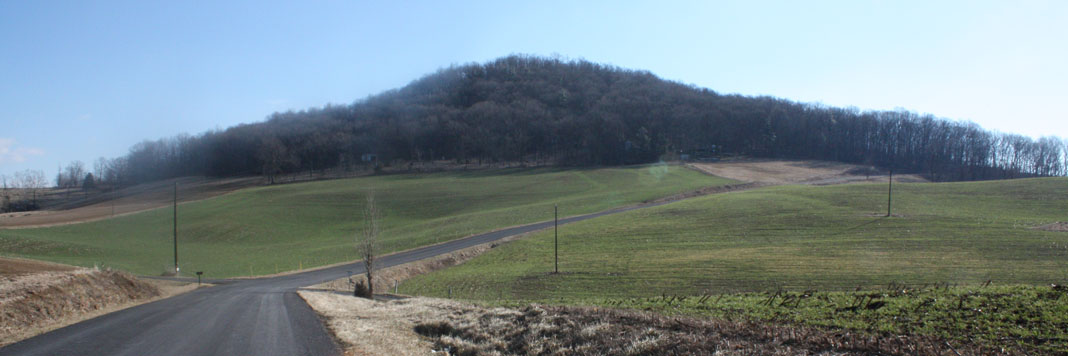 View of Mole Hill, Rockingham County, facing east from Mole Hill Road (VA Rt. 913). Feb. 2009.